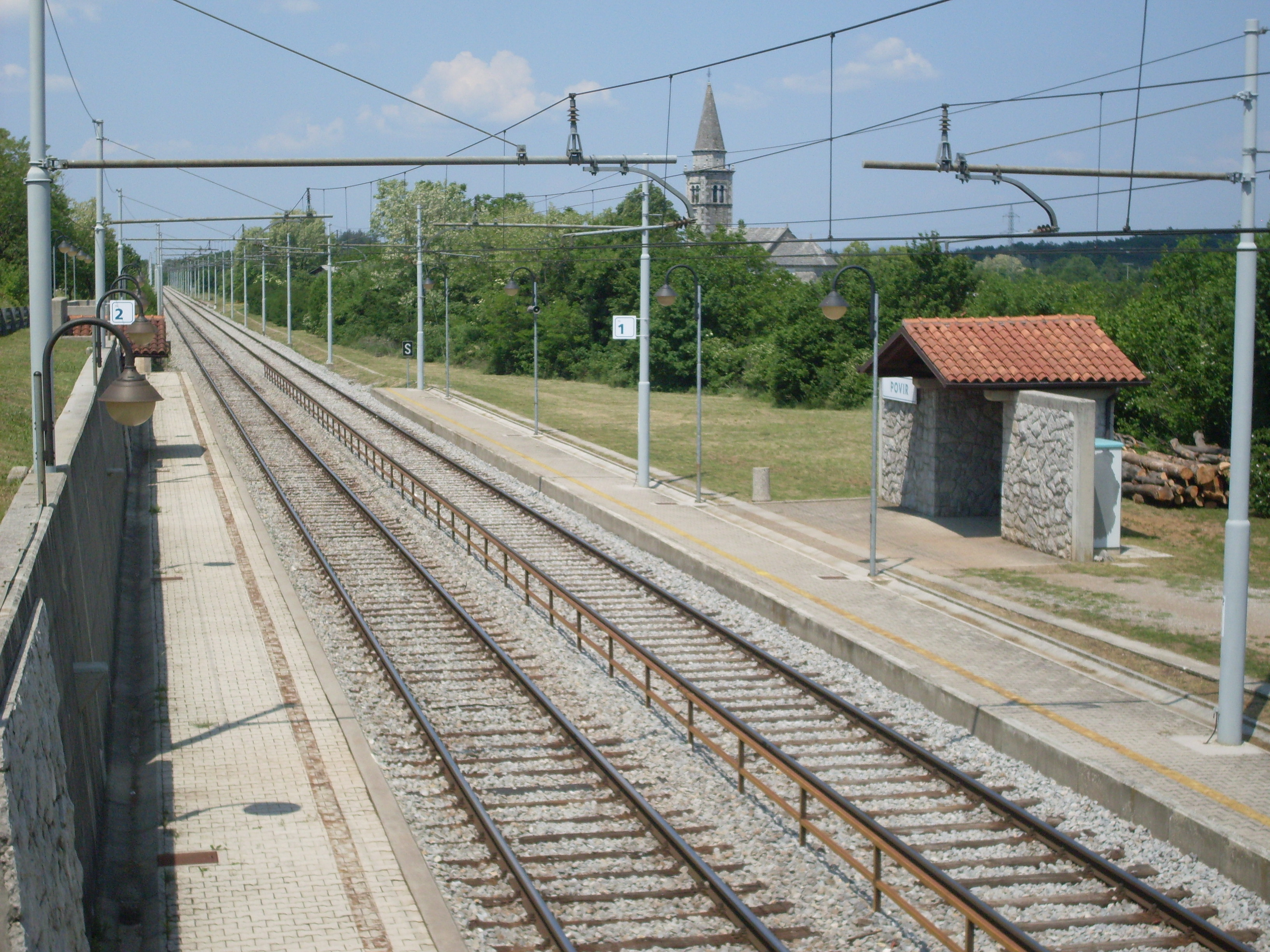 Railway halt in Povir, SloveniaSlovenščina: Železniško postajališče Povir